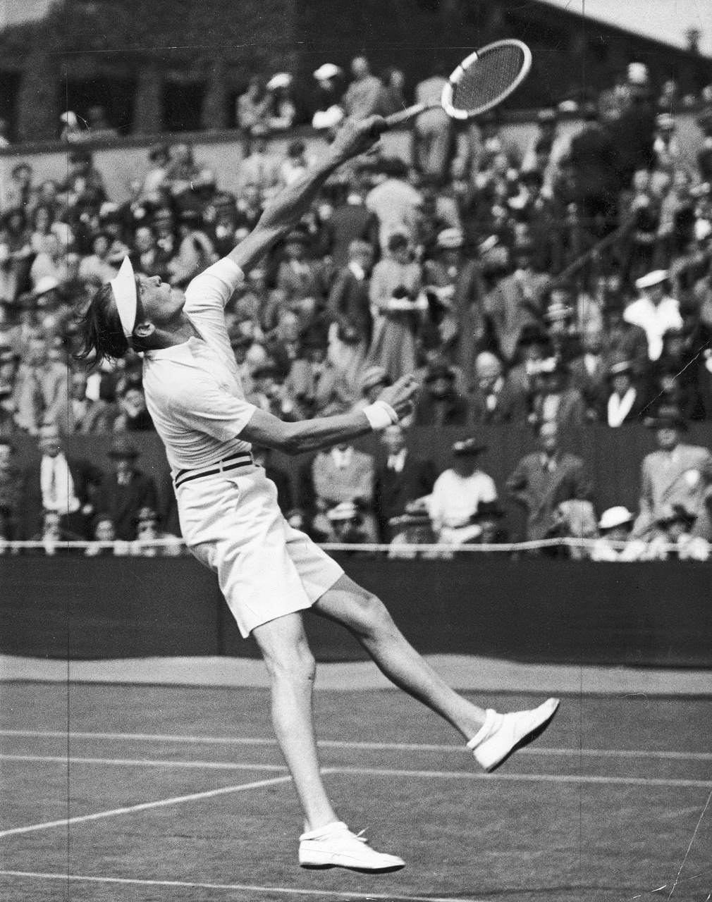 Austrian tennis player Georg von Metaxa at the Wimbledon Championships.